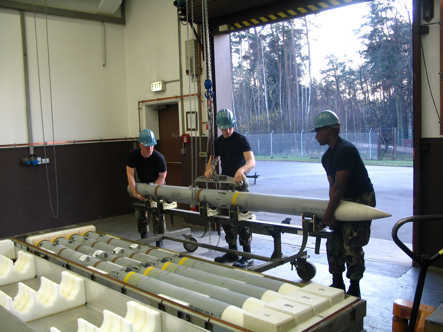 Missile maintainers prepare to remove the rocket motor from an older AIM-120A advanced medium-range air to air missile. Removing the motor and placing it in a newer and more cabable AIM-120B or C model has saved the Air Force more than $31 million. These Airmen are from the 435th Munitions Squadron at Ramstein Air Base, Germany.